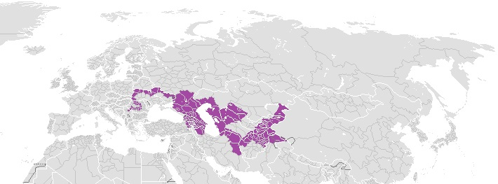 Present distribution of the Gray wolf subspecies - Caspian Sea wolf.